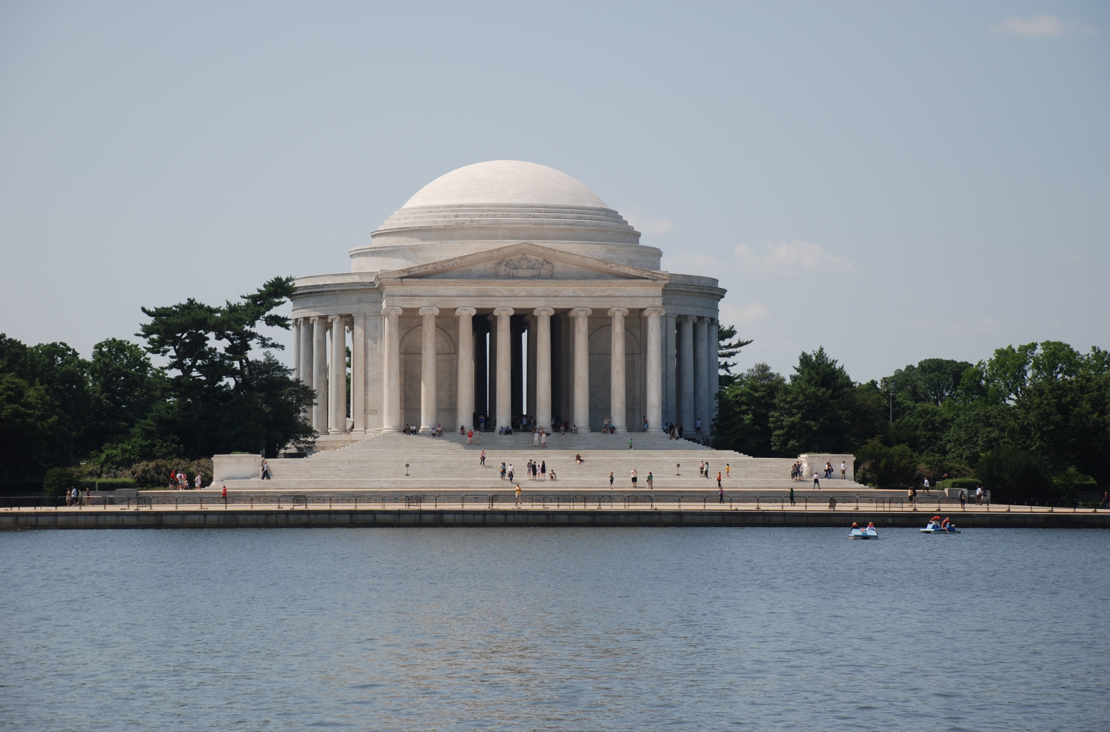 Thomas Jefferson Memorial from across the basin by the Capitol Mall in Washington, D.C.